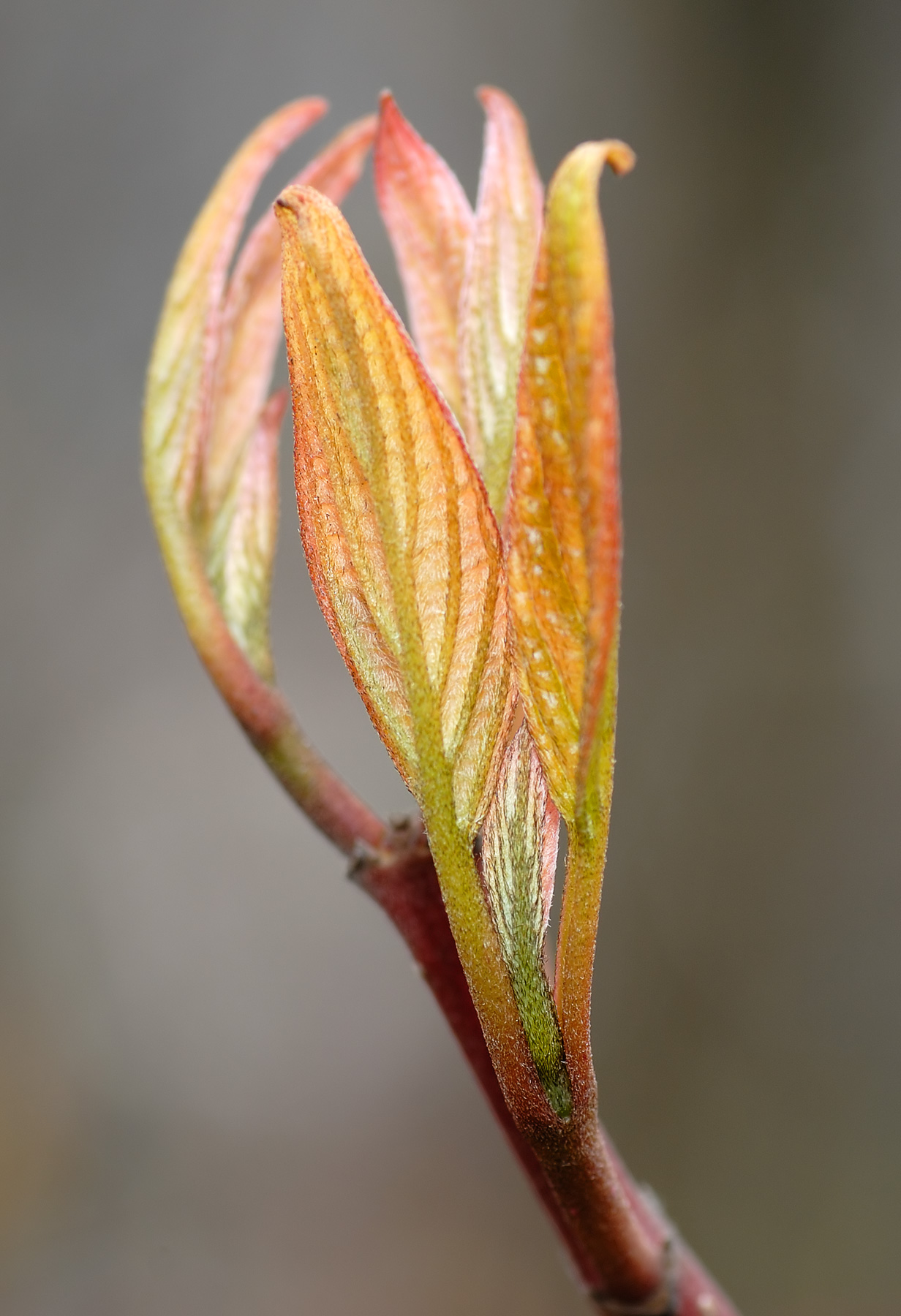 This image shows a part of a Siberian Dogwood (Cornus alba).